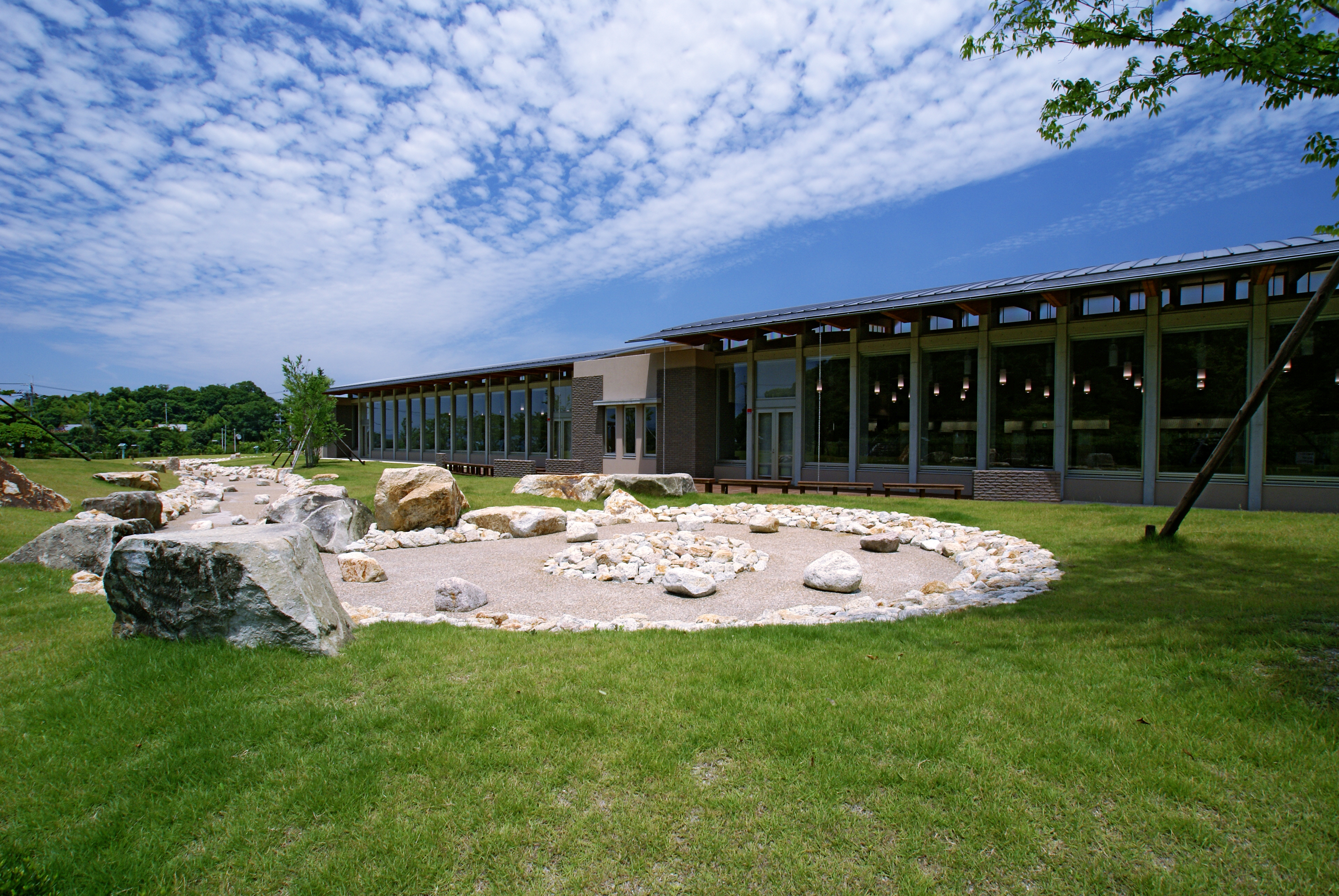 Iwade Municipal Library in Iwade, Wakayama prefecture, Japan